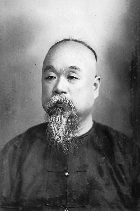 Tang Shouqian (1856－1917)